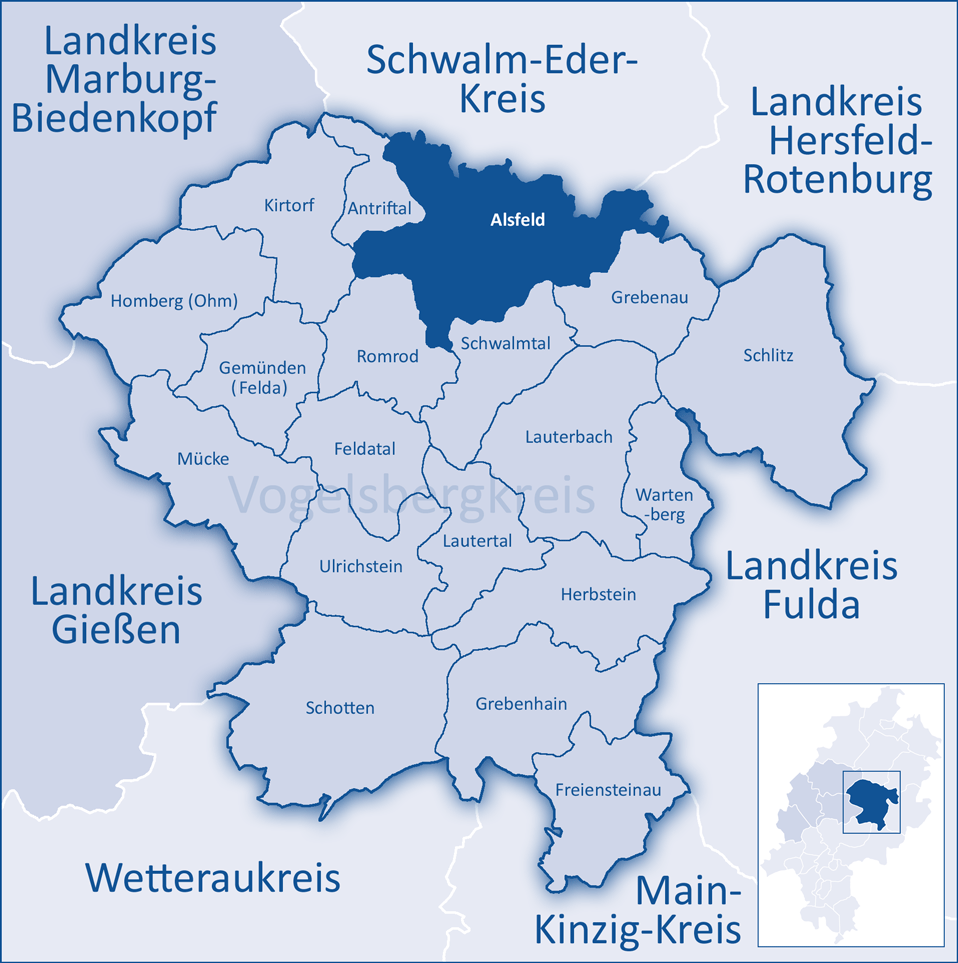 The map shows a district in the area of Vogelsbergkreis